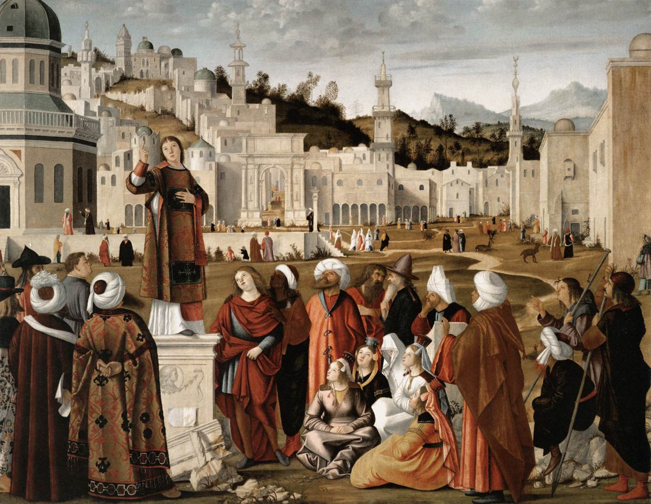 CARPACCIO, Vittore The Sermon of St Stephen Tempera on canvas, 152 x 195 cm Musée du Louvre, Paris